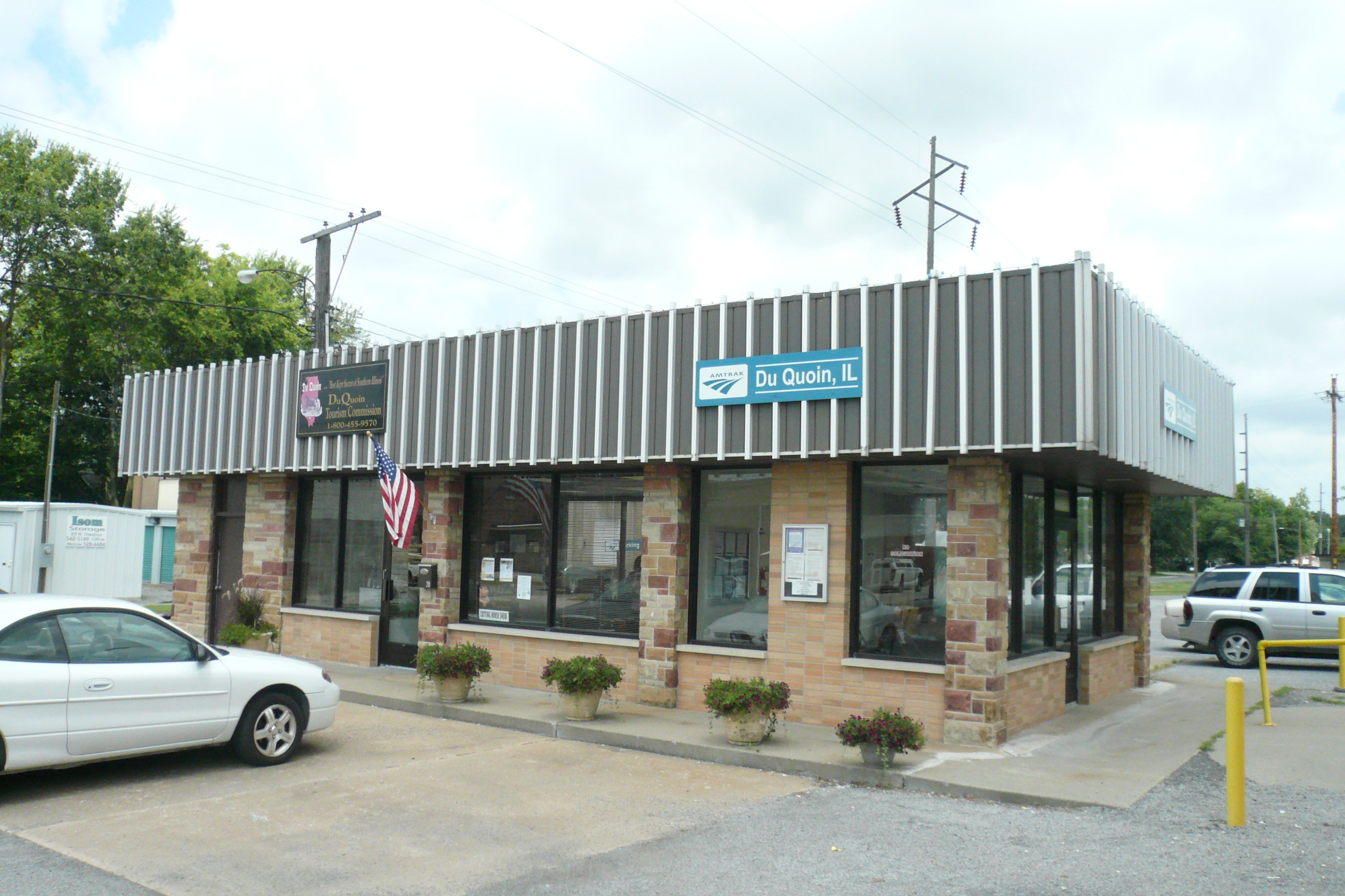 As seen from the platform.